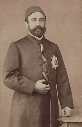 Mehmed Cemil Bey